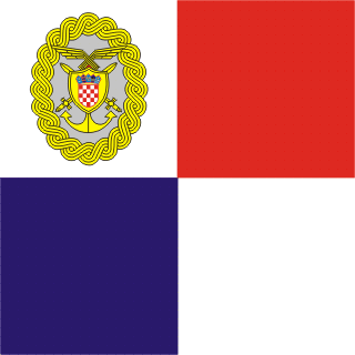 Naval Flag of the Chief of the General staff of the Armed Forces of the Republic of Croatia